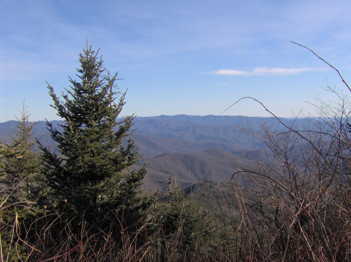 Looking southeast from the summit of Mount Kephart (el. 6,217 feet/1,895 meters) in the Great Smoky Mountains. The summit is attained from the Appalachian Trail by a brief turn onto the Boulevard Trail 2.7 miles east of Newfound Gap, and another turn onto the Jumpoff Trail.